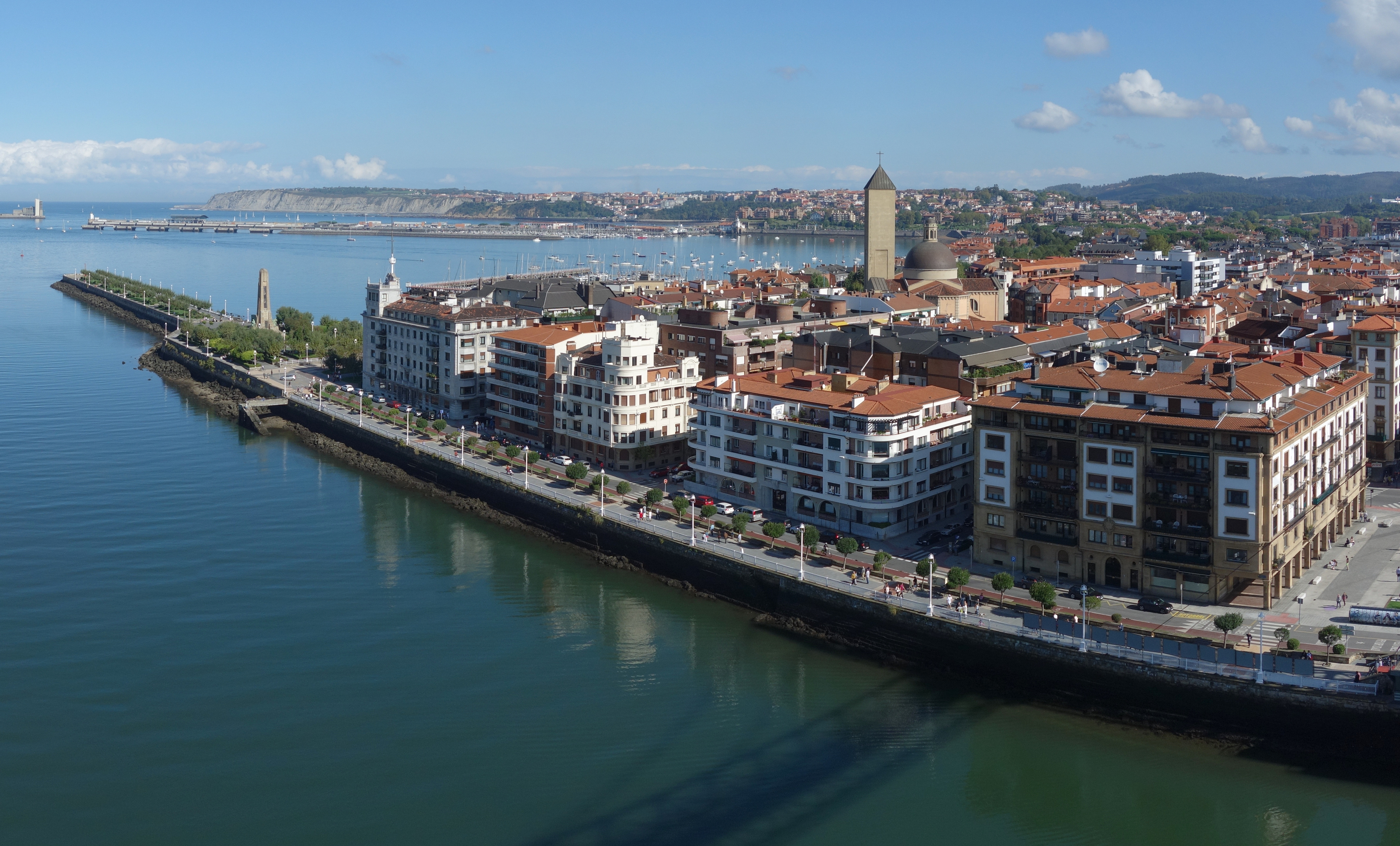 A view of Getxo, with its neigborhood Las Arenas in the foreground, as seen from the Puente Transbordador de Vizcaya, looking to the north.